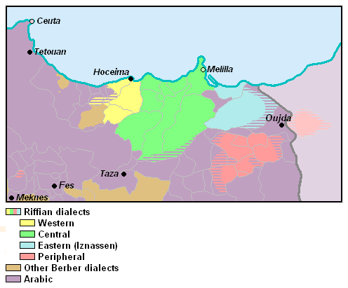 Map of Riffian dialects in Morocco